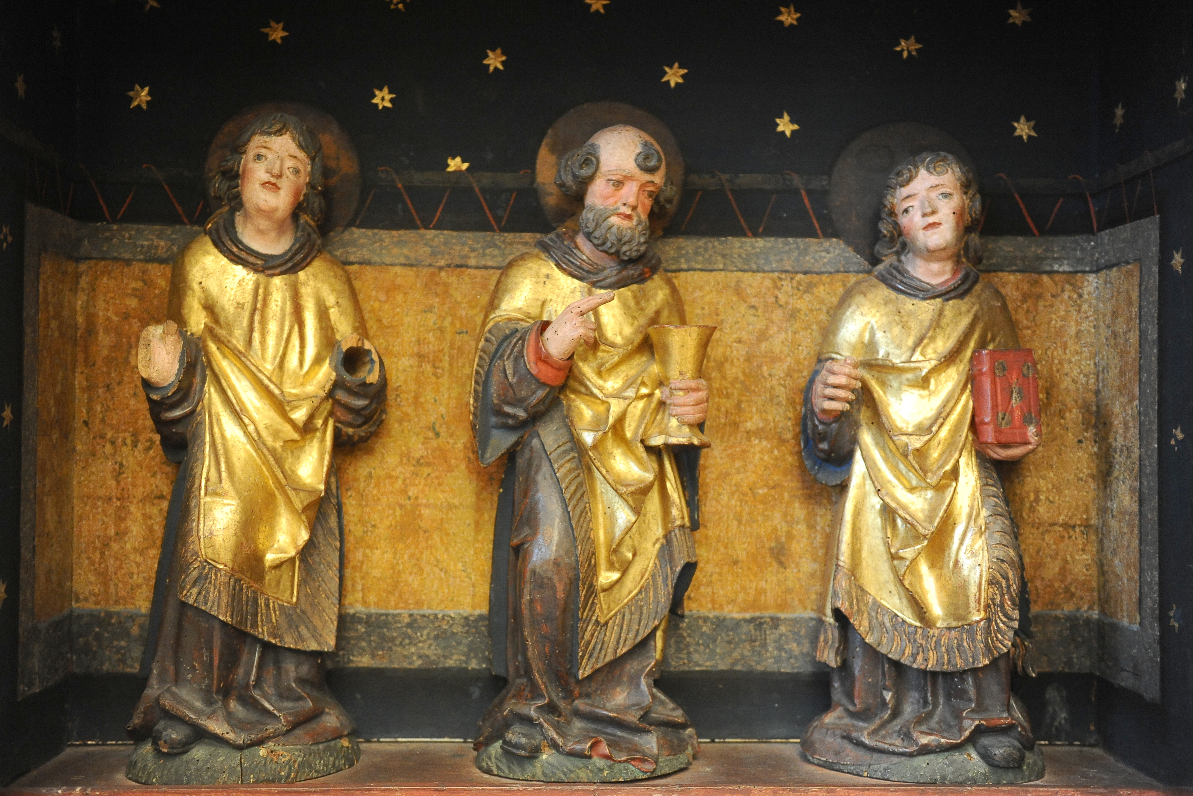 Martyrs Sisinnius, Martyrius and Alexander. Detail of a winged altar.